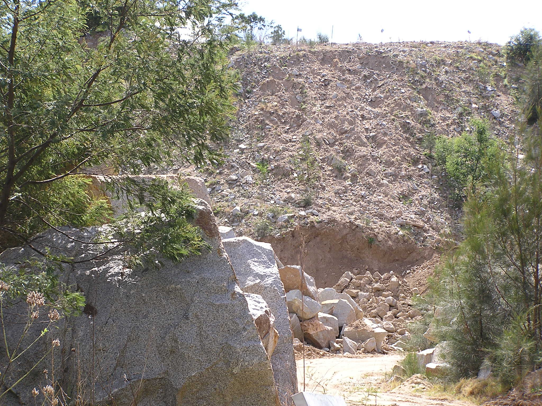 Moruya Quarry at Moruya, New South Wales, Australia.